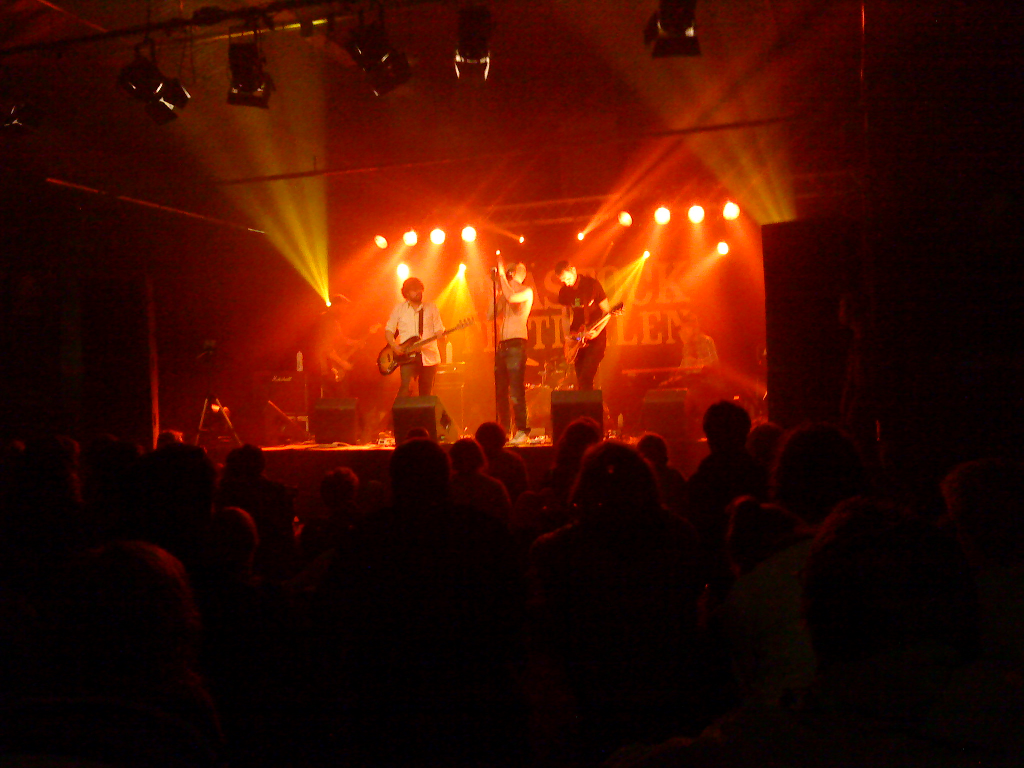 The Spacious Mind in concert at Trästock 2009, Skellefteå, Sweden.